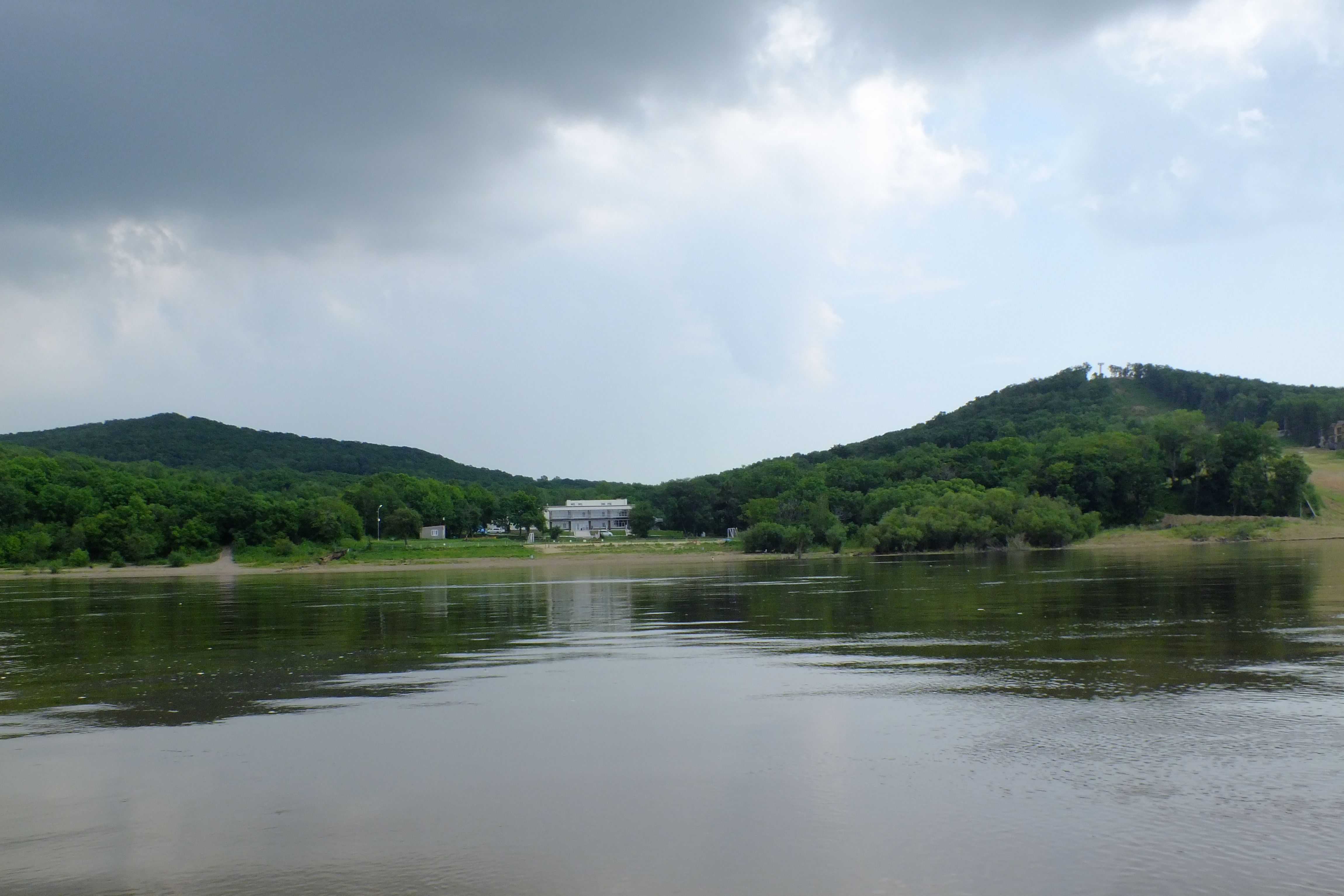 Khabarovsky District